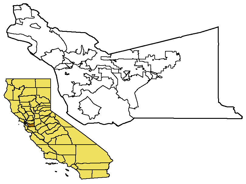 Map of Alameda County, with County highlighted in California. I created this by changing Image:Oakland in Alameda County.png made by User:Mackerm. He created that image from US Census Bureau data, & released it into to the Public Domain.